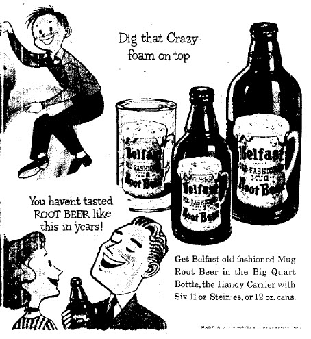 Portion of a Belfast Root Beer ad in the Oakland Tribune